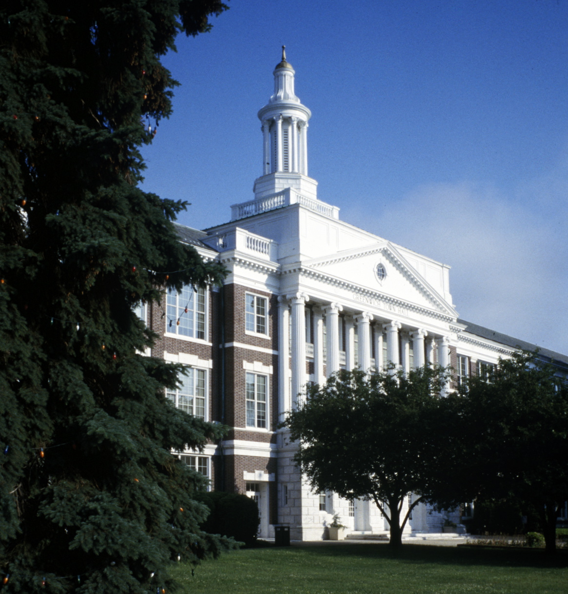 Greenwich Town Hall, Greenwich, Connecticut, USA